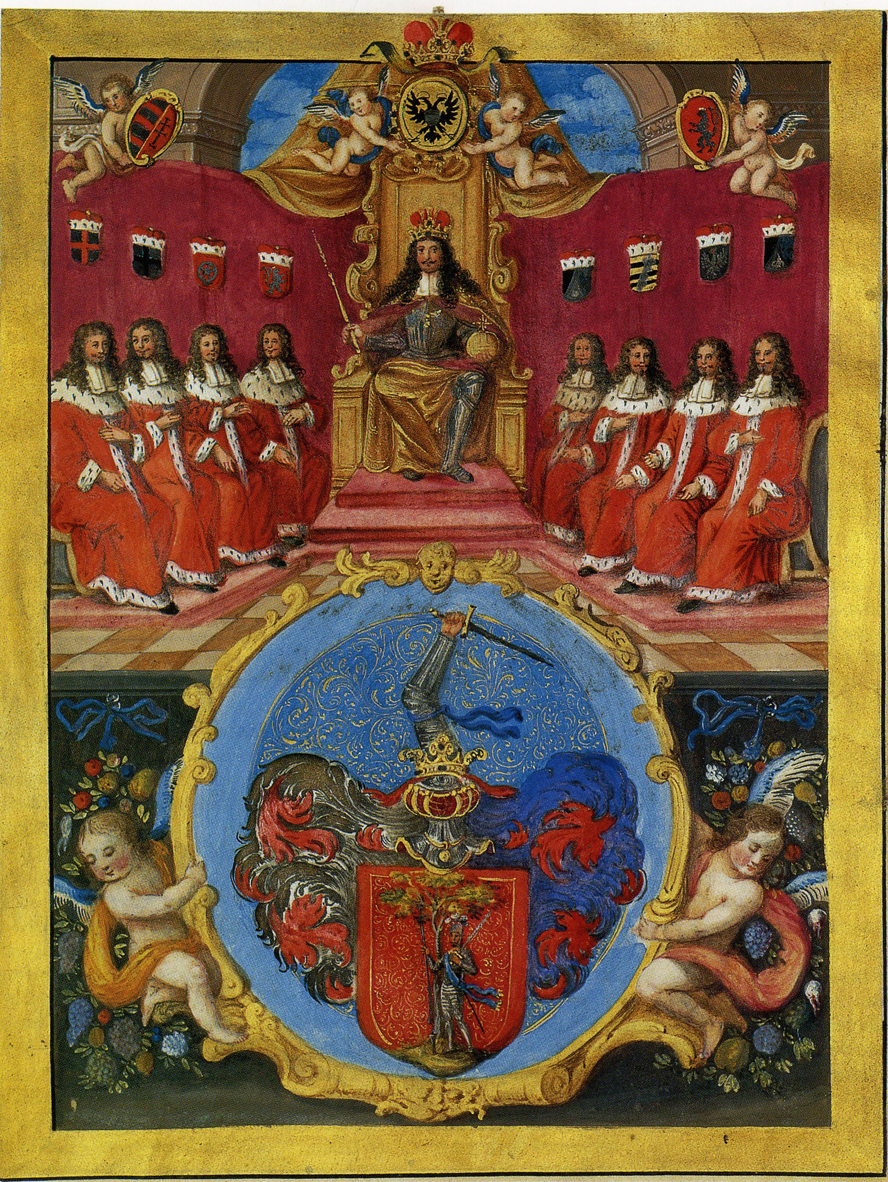 CoA estates of the country (East Frisia) from 1678